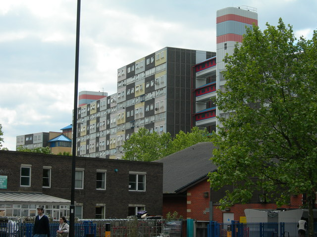 Not really built of Lego...... This is a block of flats on the Doddington and Rollo Estate, off Battersea Park Road. Picture was taken near the junction of Macduff Road. Many of the blocks share this unusual colour scheme.